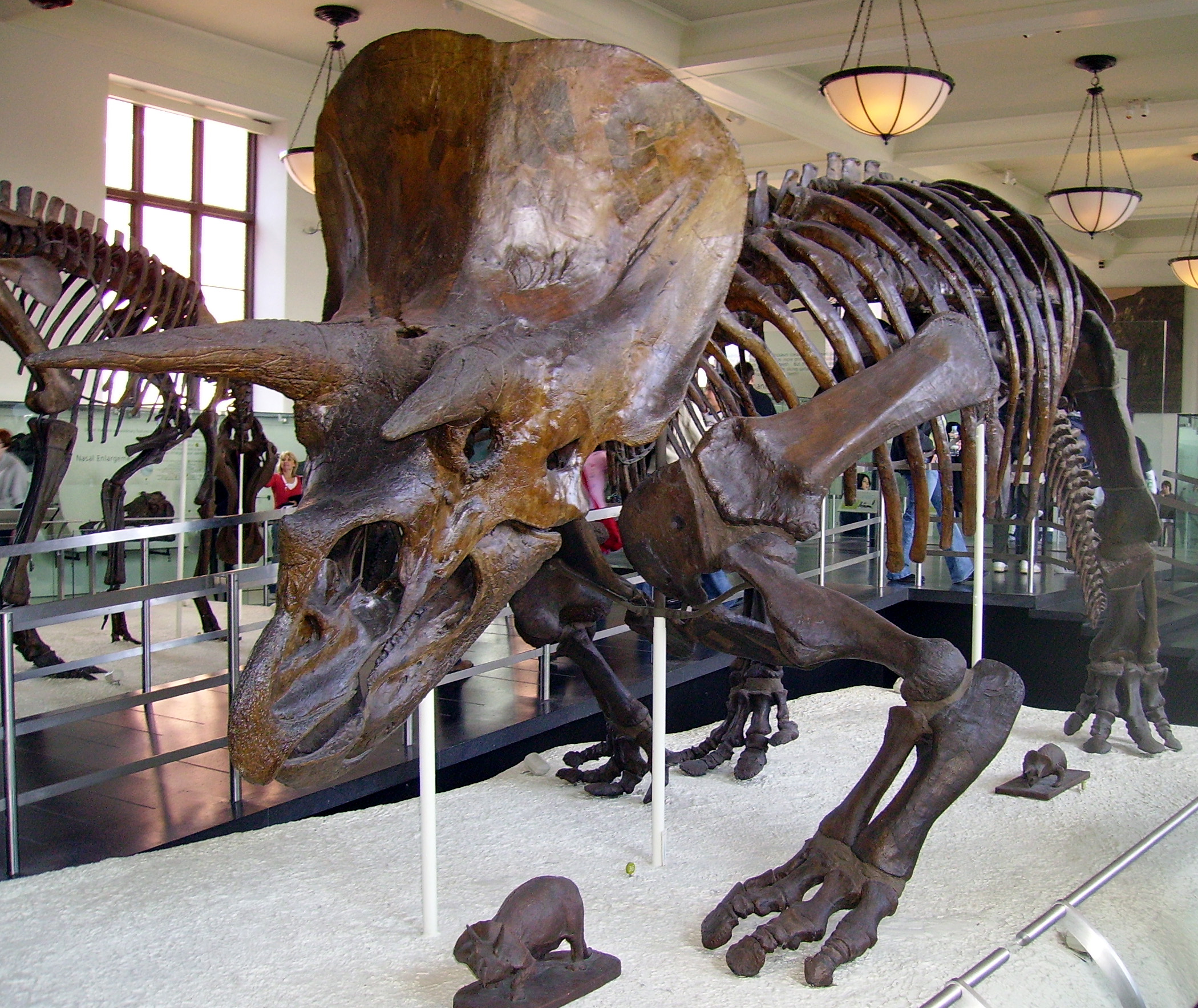 Triceratops skeleton at the American Museum of Natural History